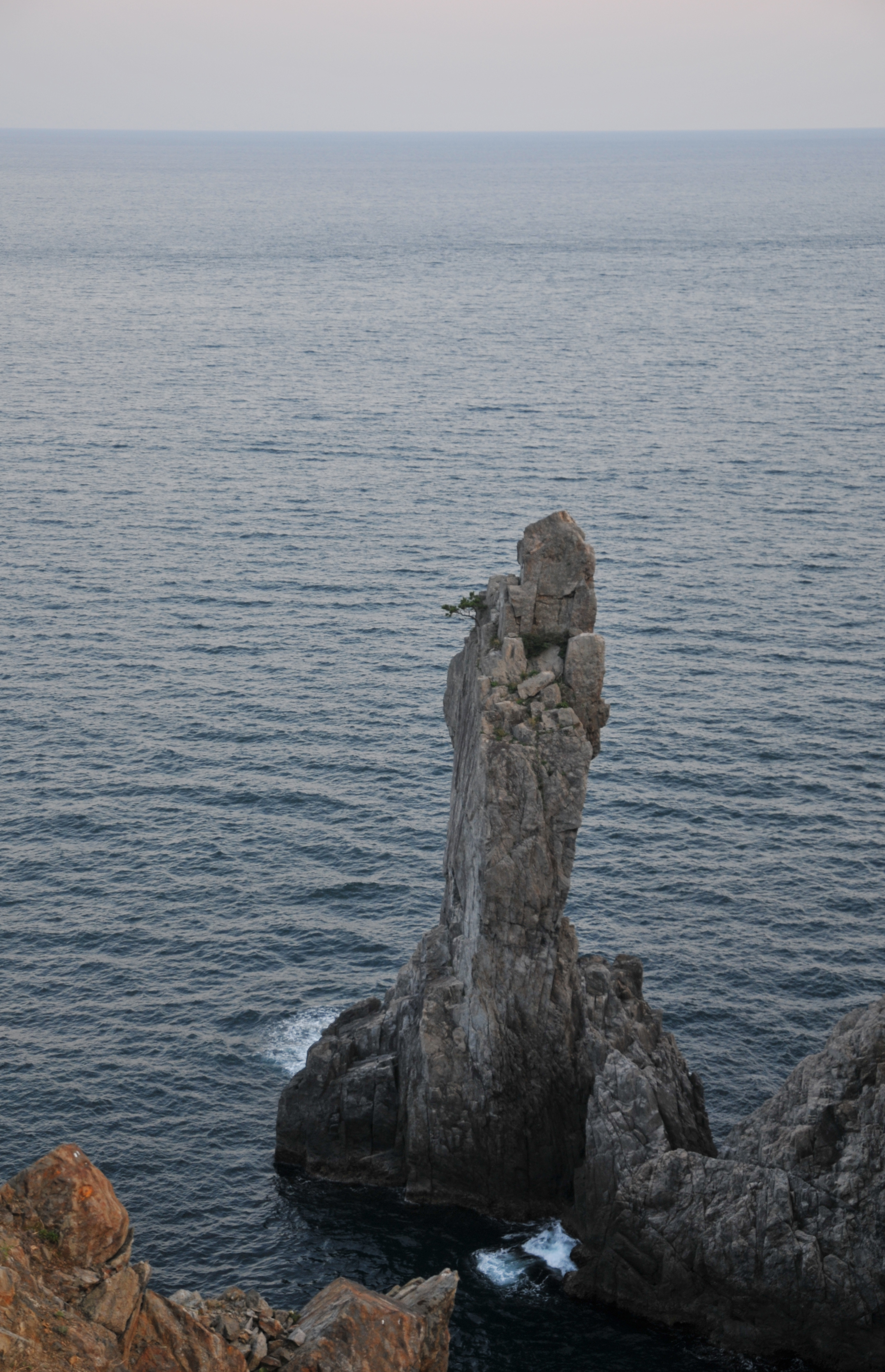 Kannon-iwa rock